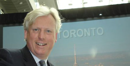 David Miller launching "ICT Toronto". Blog entry about event.